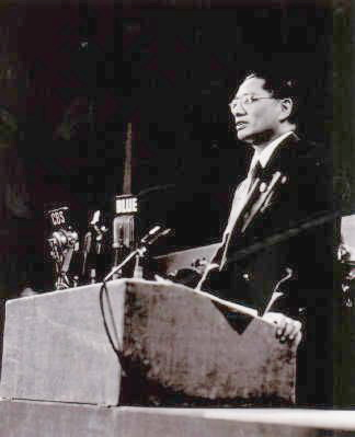 1945 TV Soong at UN 1945年，宋子文在联合国会议上发言。